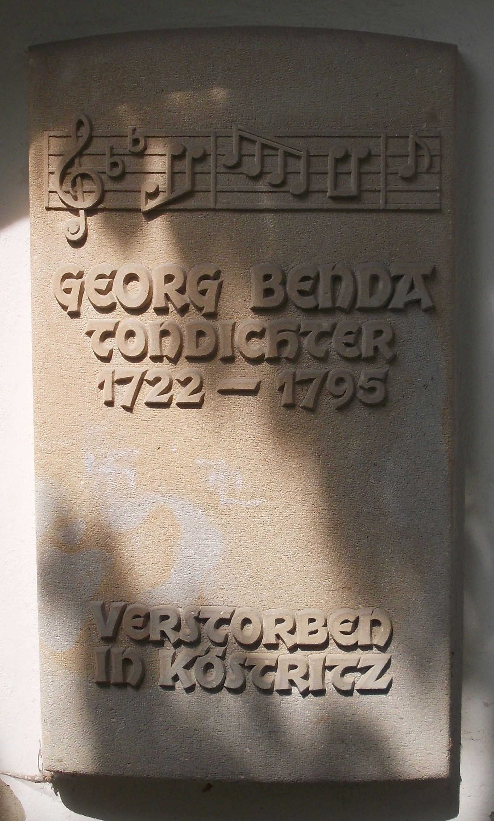 St. Leonard's Church in Bad Köstritz (Greiz district, Thuringia), plaque to the composer Georg Anton Benda